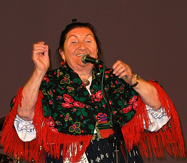 Moravian folk singer Jarmila Sulakova